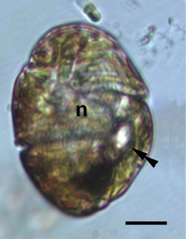 Light micrograph of a single Nematodinium sp. isolate (a Warnowiid dinoflagellate). Double arrowhead = ocelloid (light-sensitive structure analogous to metazoan eyes); n = nucleus. Scale bar = 10 microns. This image is lightly edited to remove distracting panel label from Panel M of Figure 1 from Hoppenrath et al. 2009, Molecular phylogeny of ocelloid-bearing dinoflagellates (Warnowiaceae) as inferred from SSU and LSU rDNA sequences, BMC Evolutionary Biology 9:116.